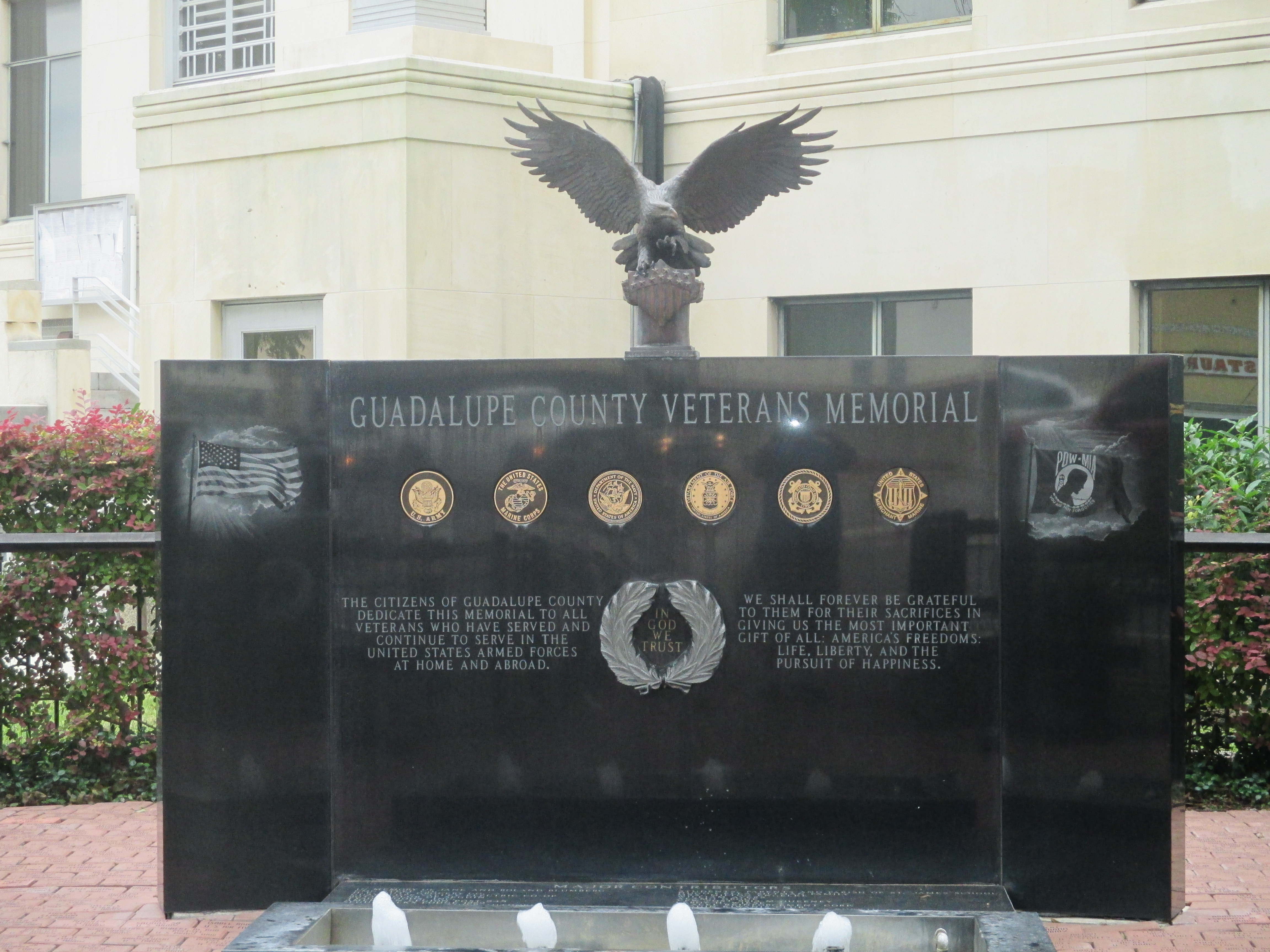 I took photo with Canon camera of Guadalupe County Veterans Memorial in Seguin, TX.